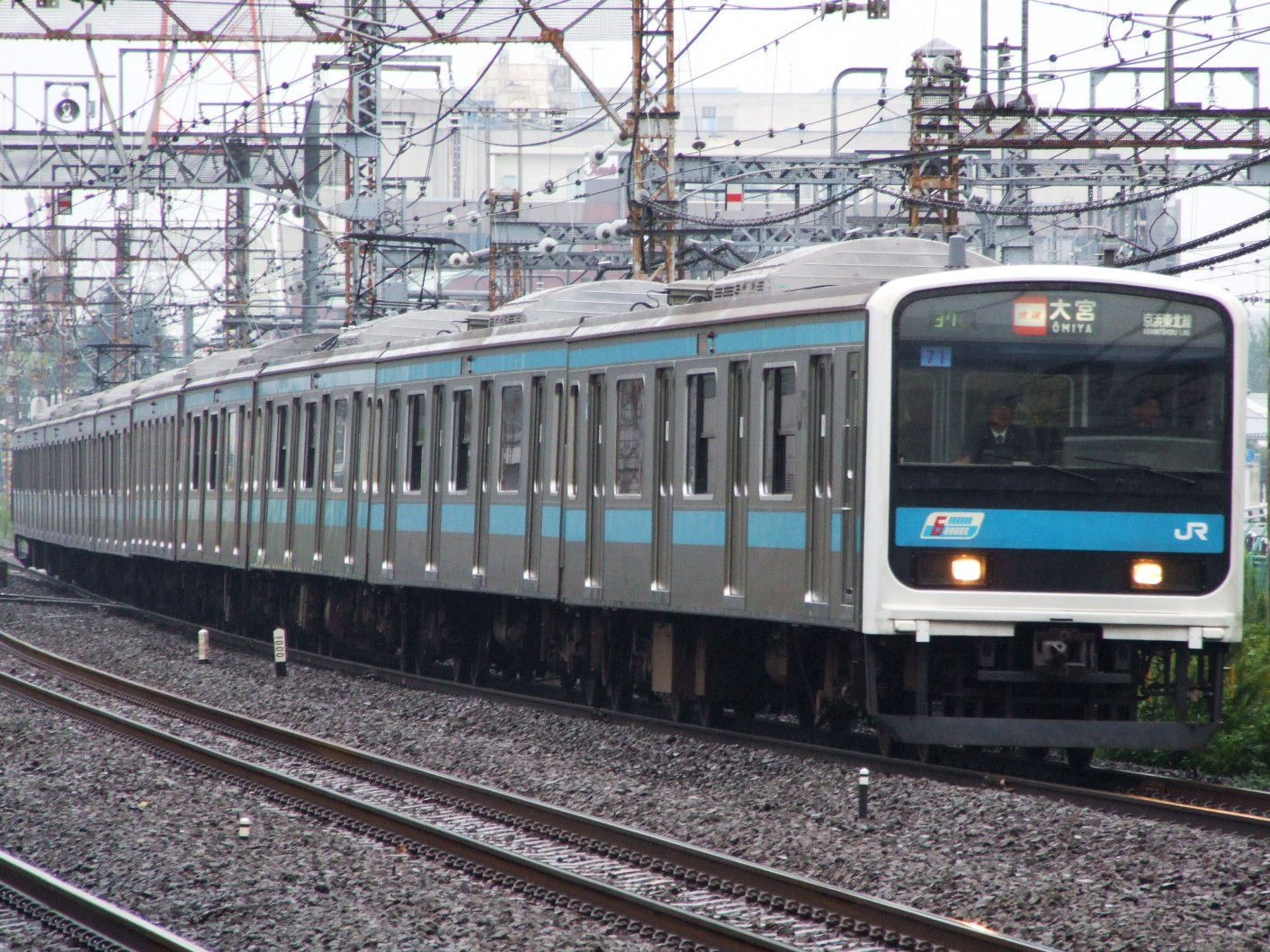 Series 209,Keihin-Tōhoku Line,East Japan Railway Company,Japan